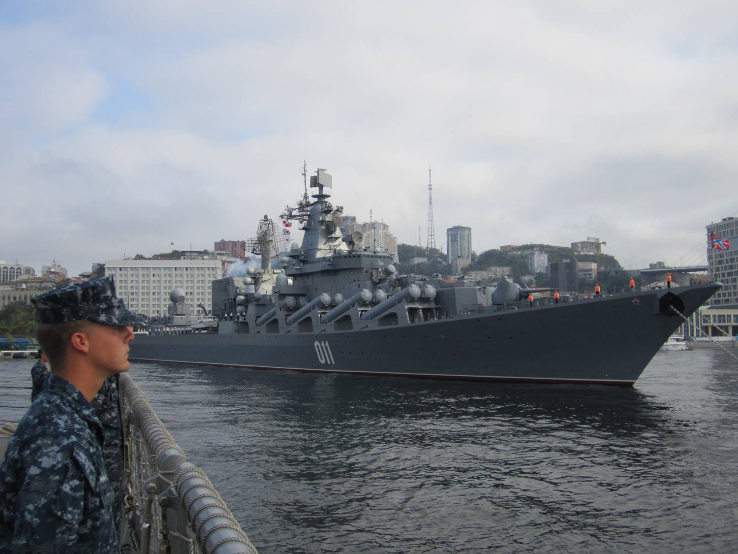 VLADIVOSTOK, Russia (Sept. 22, 2012) Sailors aboard USS Vandergrift (FFG 48) man the rails as the ship departs Vladivostok, Russia after a port visit. Vandergrift is conducting a Western Pacific patrol. (US Navy photo by Ens. Aaron Brotman)